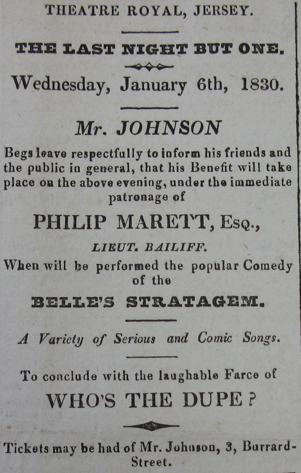 Advertisement for the programme at the Theatre Royal, Jersey: 6 January 1830 - The Belle's Stratagem